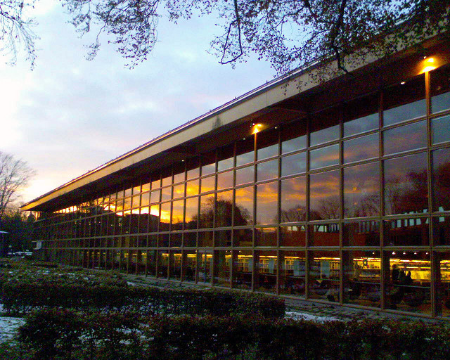 Library of Linköping